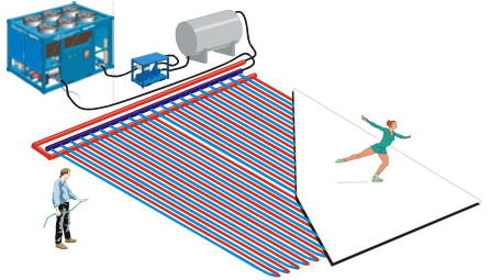 Simplified illustration of the components of a mobile ice skating rink.